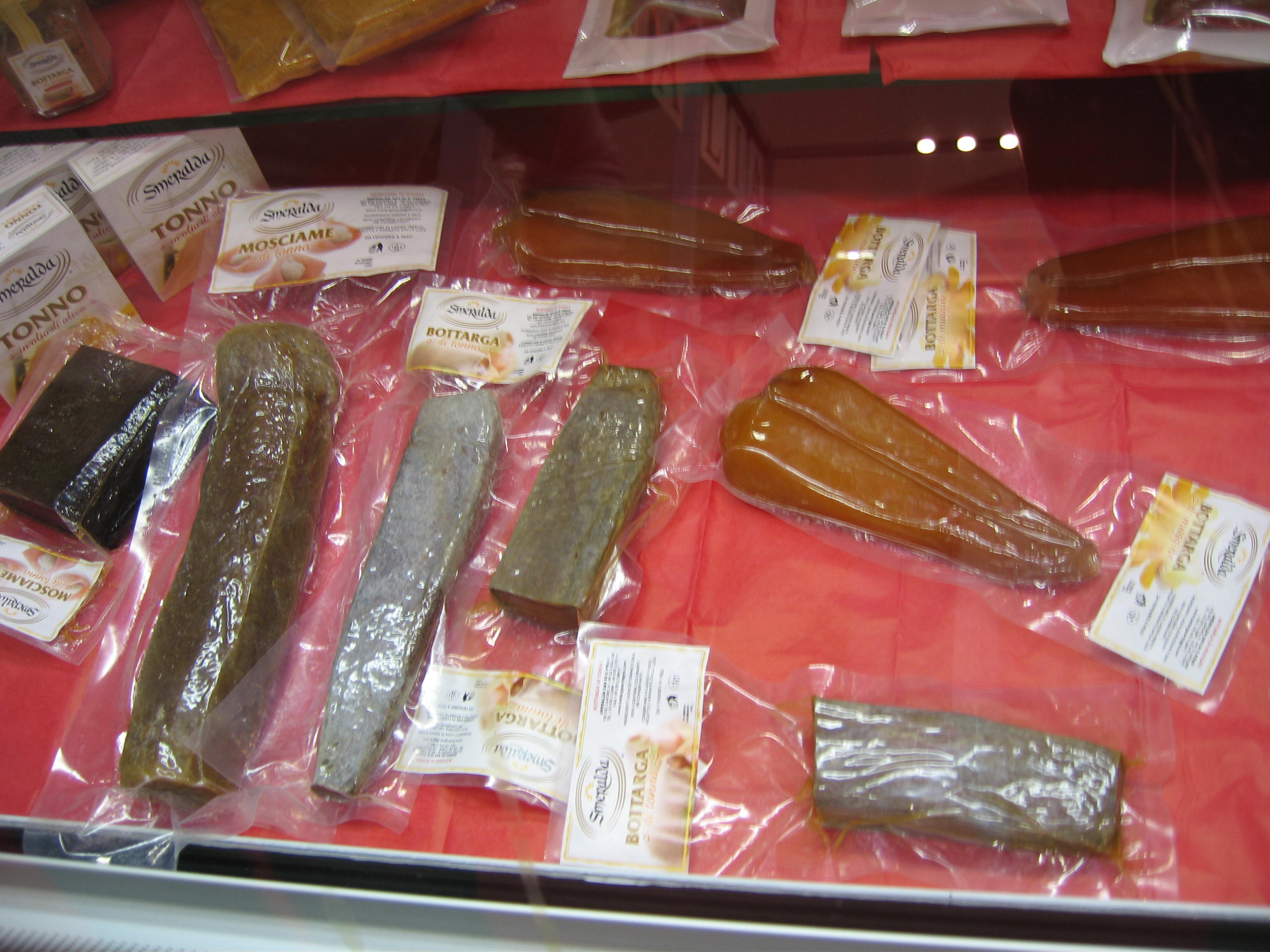 A display of bottarga of the grey mullet and of bluefin tuna (above) and mosciame of bluefin tuna (left). Photo taken at the Fancy Food Show 2007 in the United States, with a Canon PowerShot SD500 digital camera.